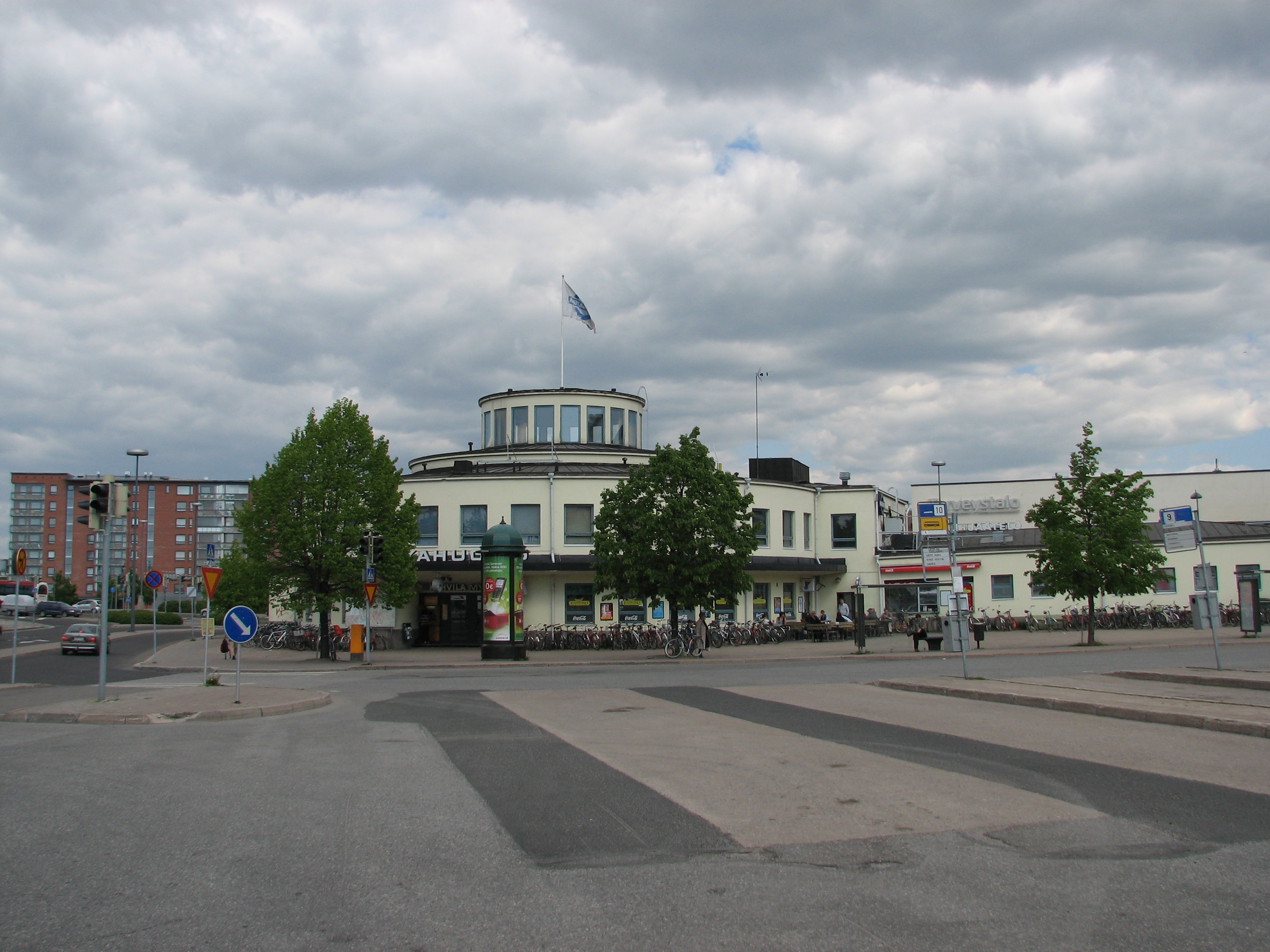 The central bus station in Turku, Finland.